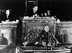 Japanese Prime Minister Shigeru Yoshida (1878–1967, in office 1946–57 and 48–54) gives Policy Address in the House Chamber.